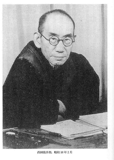 Photo of Kitaro Nishidain in Feb. 1943.